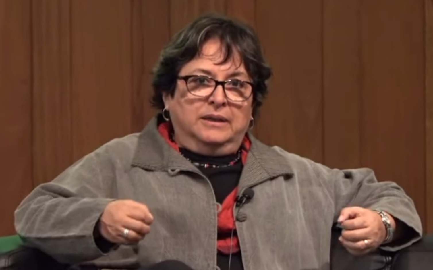 Peruvian archaeologist Sonia Guillén speaks on the cultural production of the Amazon in 2016, for the Goethe-Institut Peru.